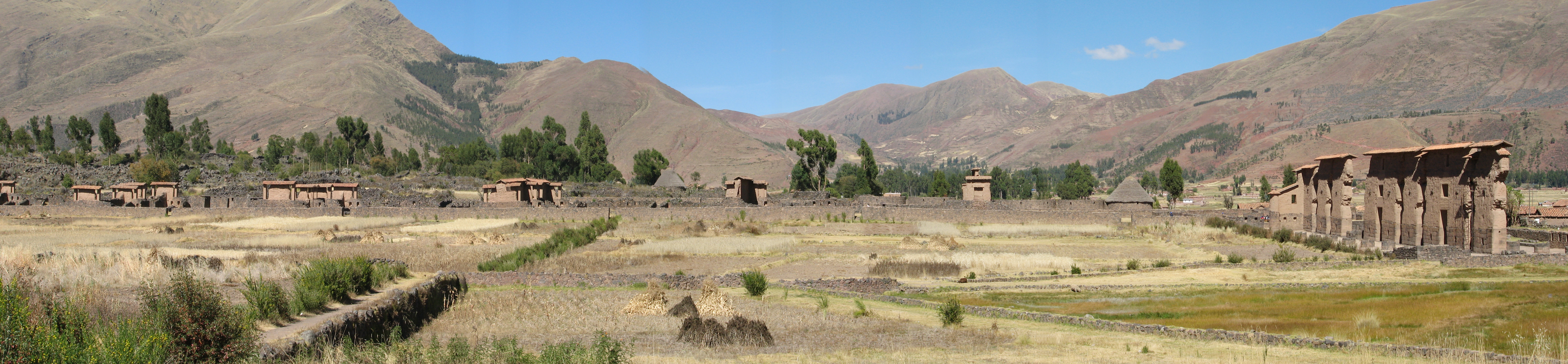 Raqchi archaeological site Peru (overview)